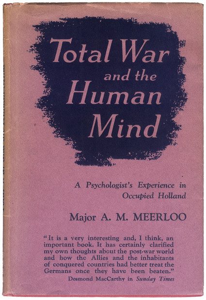 Dust jacket of Meerloo's "Total War and the Human Mind". Second printing, November 1944.